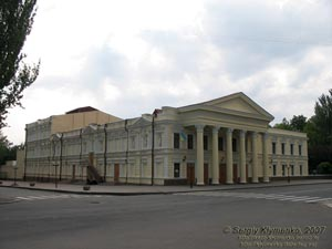 Mykolaiv Art Russian Drama Theatre